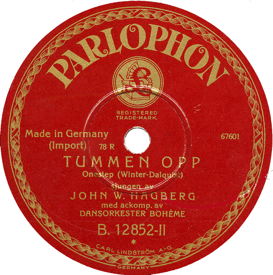 Parlophon, German record label produced by Carl Lindström AG. This 1929 issue produced for the Swedish market, featuring Swedish singer John Wilhelm Hagberg (1897-1970) backed by a German studio orchestra.